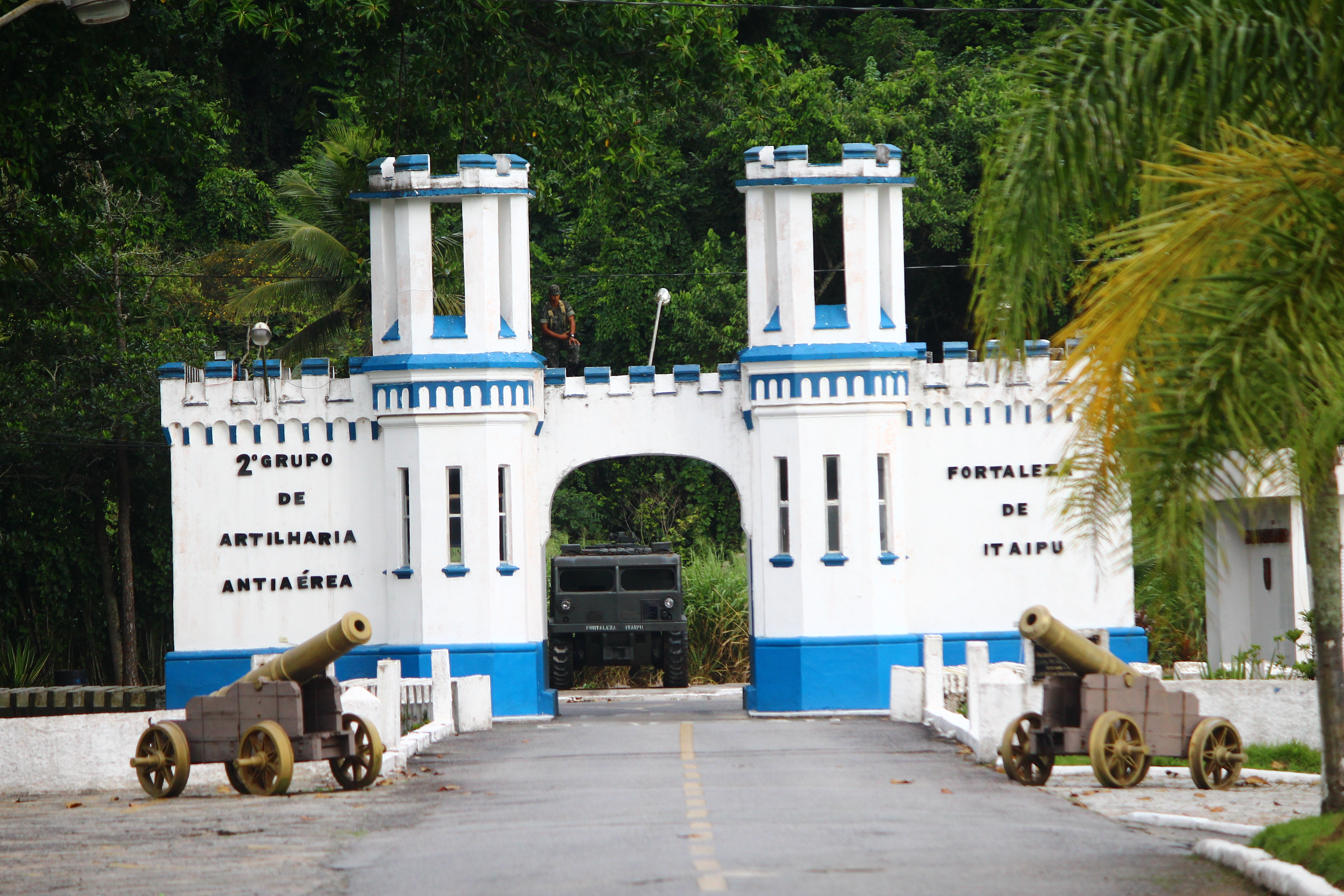 Portal of entry of the fortress of Itaipú, which since the beginning of the twentieth century has an important defensive function of the port of Santos. São Paulo, Brazil